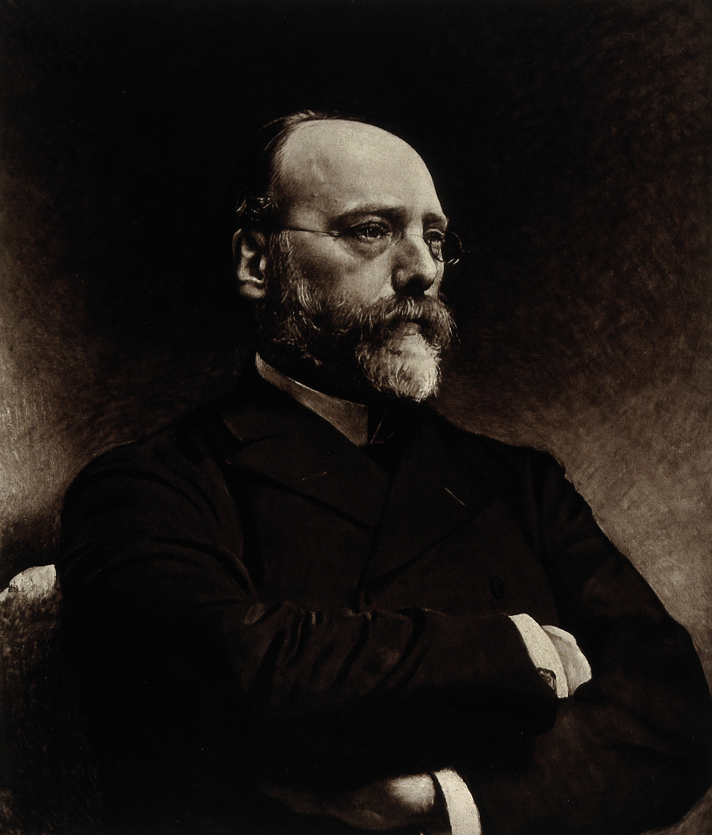 Charles Jacques Bouchard. Photograph. Iconographic Collections Keywords: portrait photographs